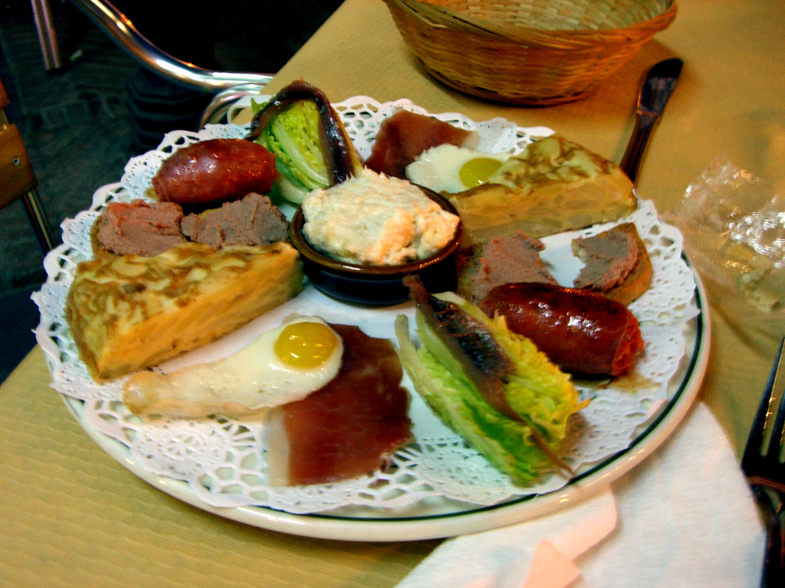 A plate of tapas photographed in a Ronda restaurant, Andalusia, Spain